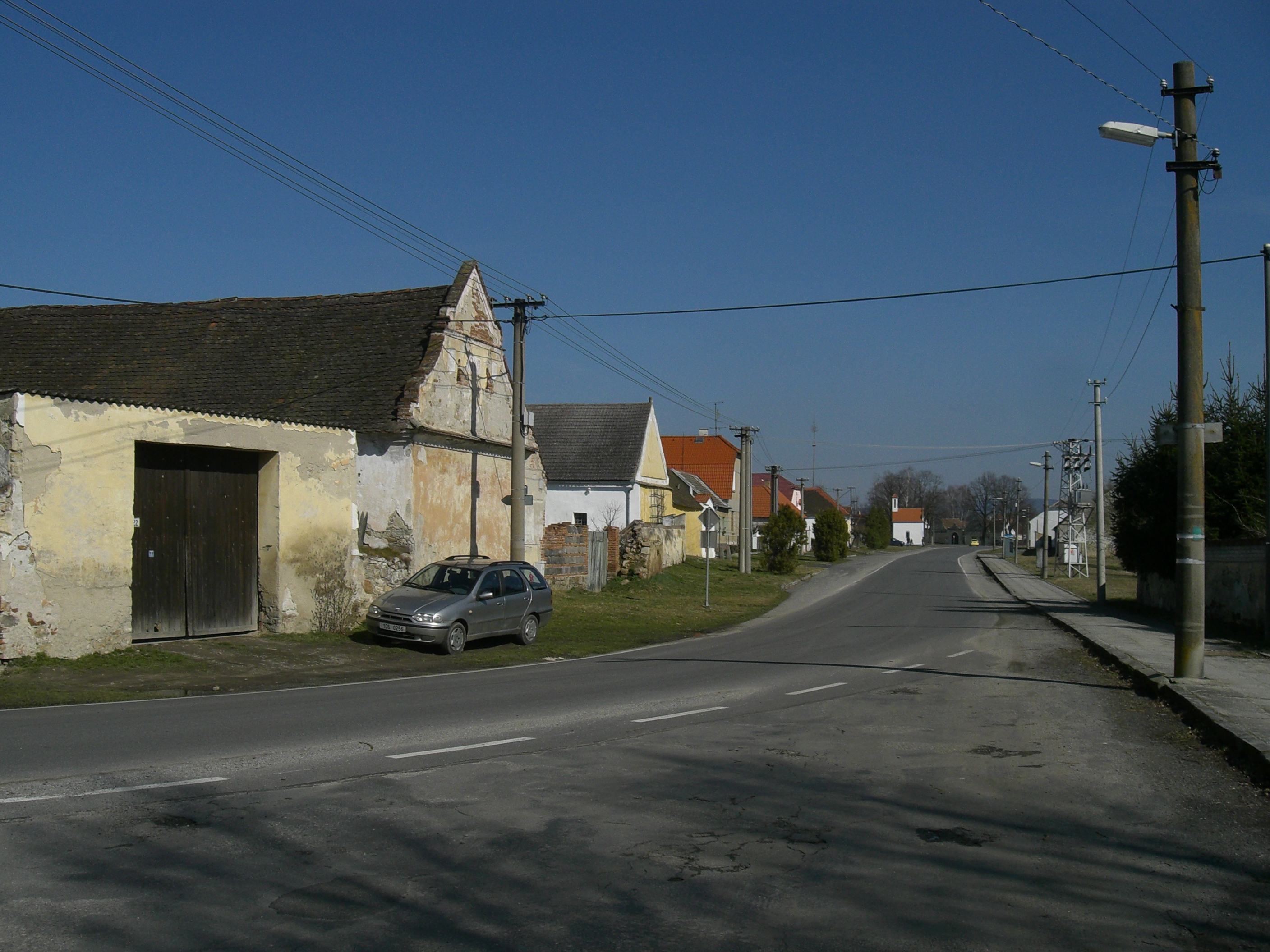 Skály village in Písek district, Czech Republic. Road towards the village common